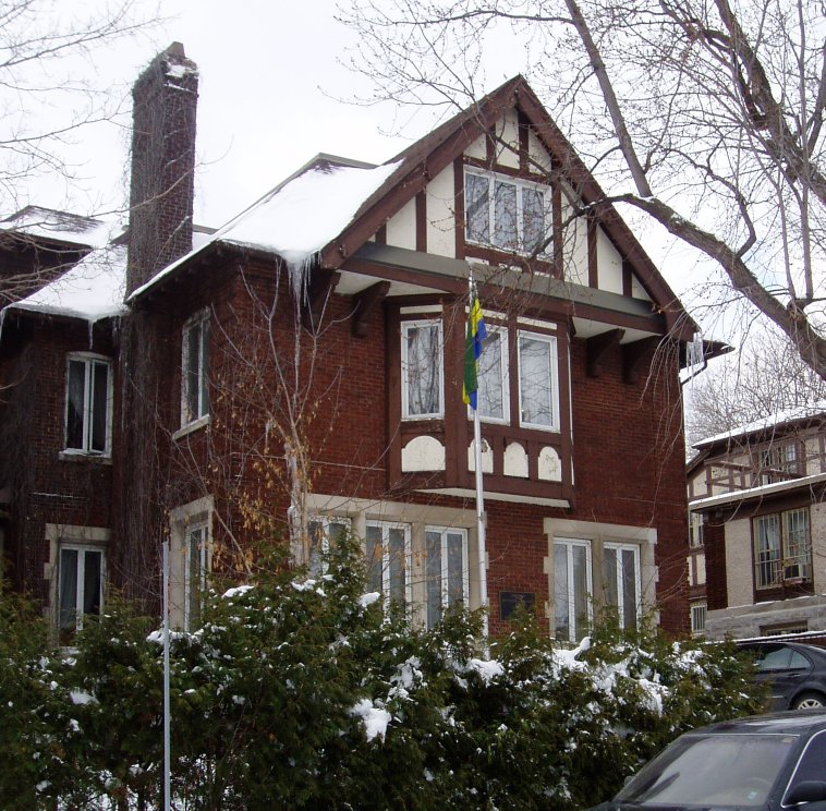 Embassy of Gabon in Ottawa, Canada